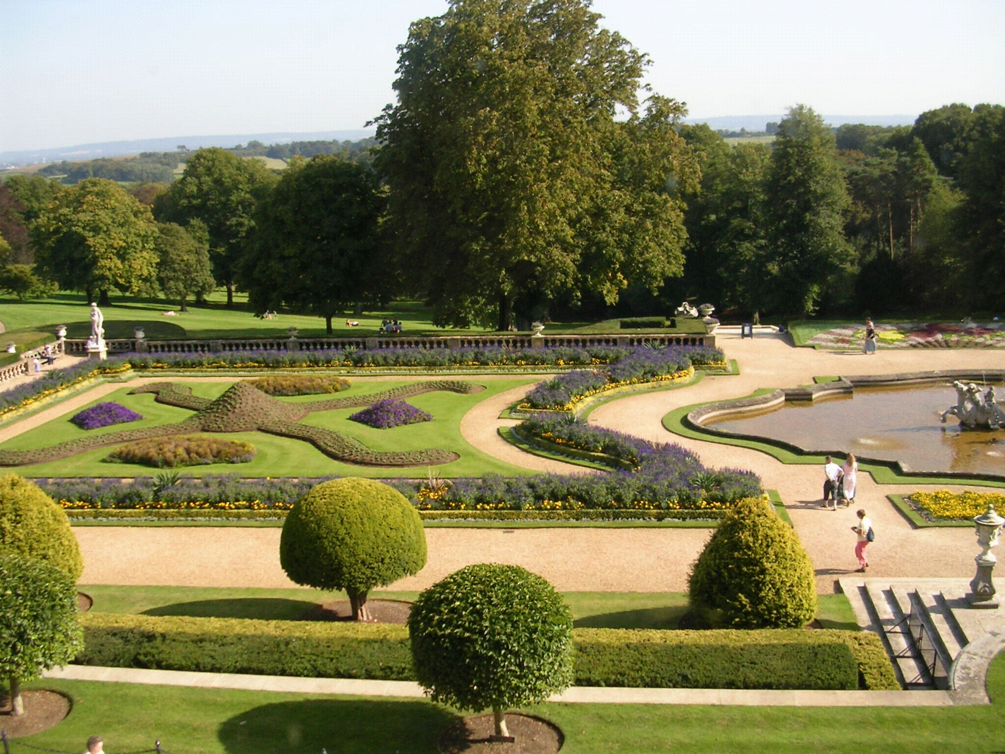 Parterre in the garden at Waddesdon Manor. Photographed by uploader Giano.